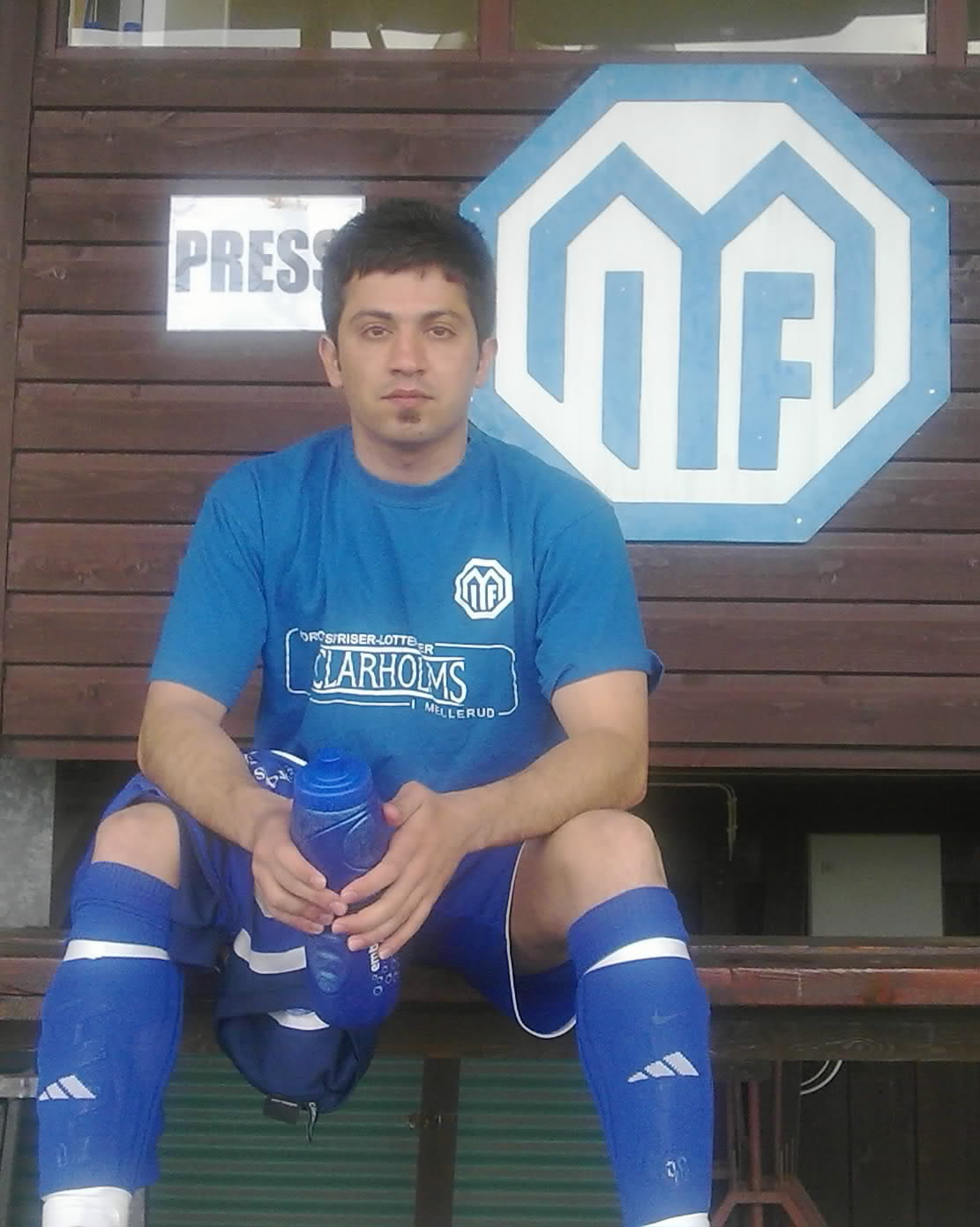 Soccer player in Meleruds IF club